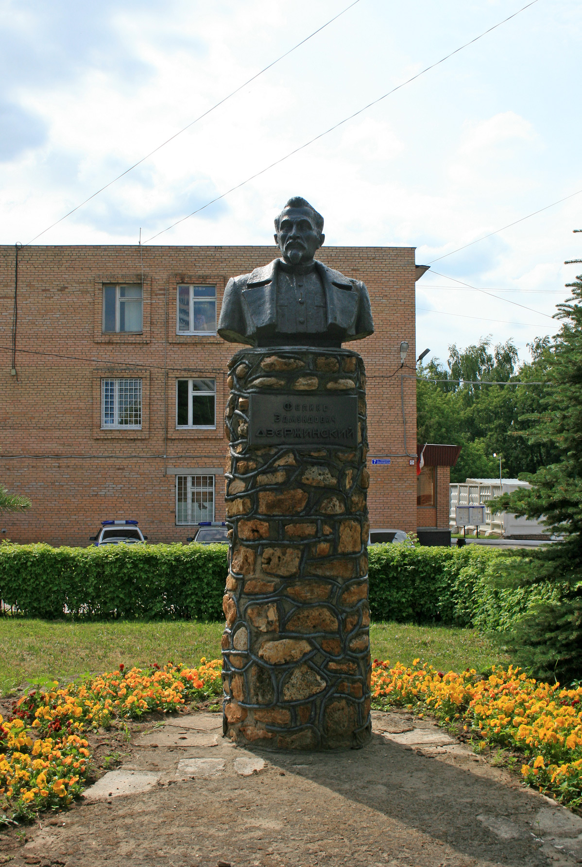 Police department in Pavlovsky Posad, Russia.